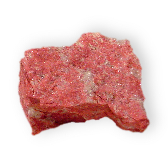 These mineral images are free to use how you wish.